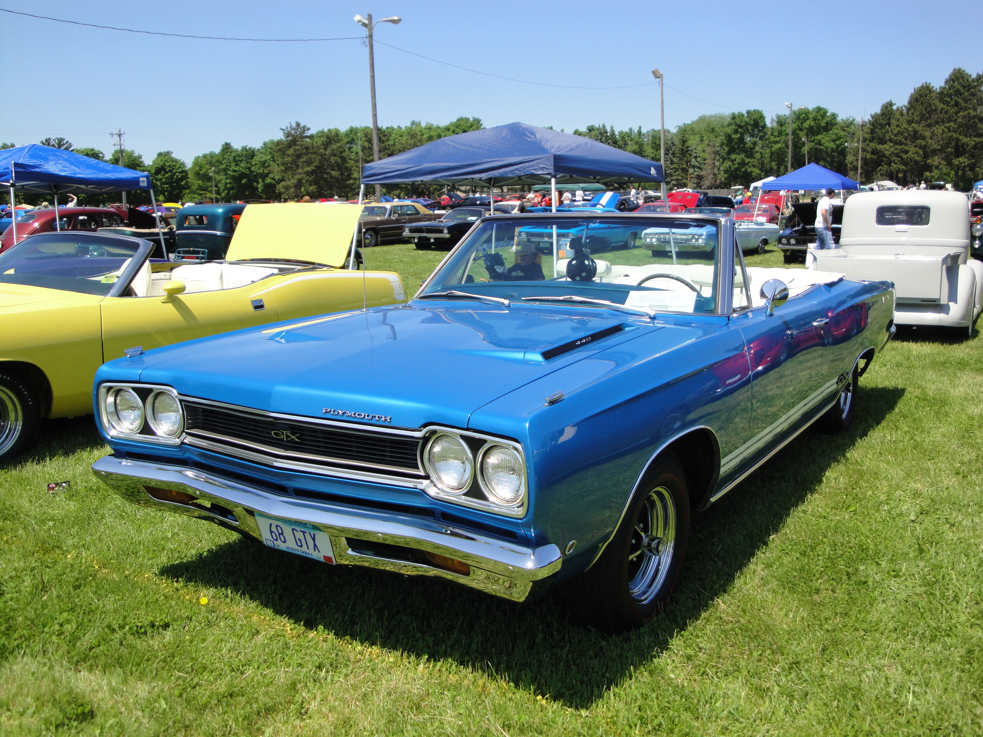 Midwest Mopars 2011 Mopars in the Park Click link below for more Car pictures